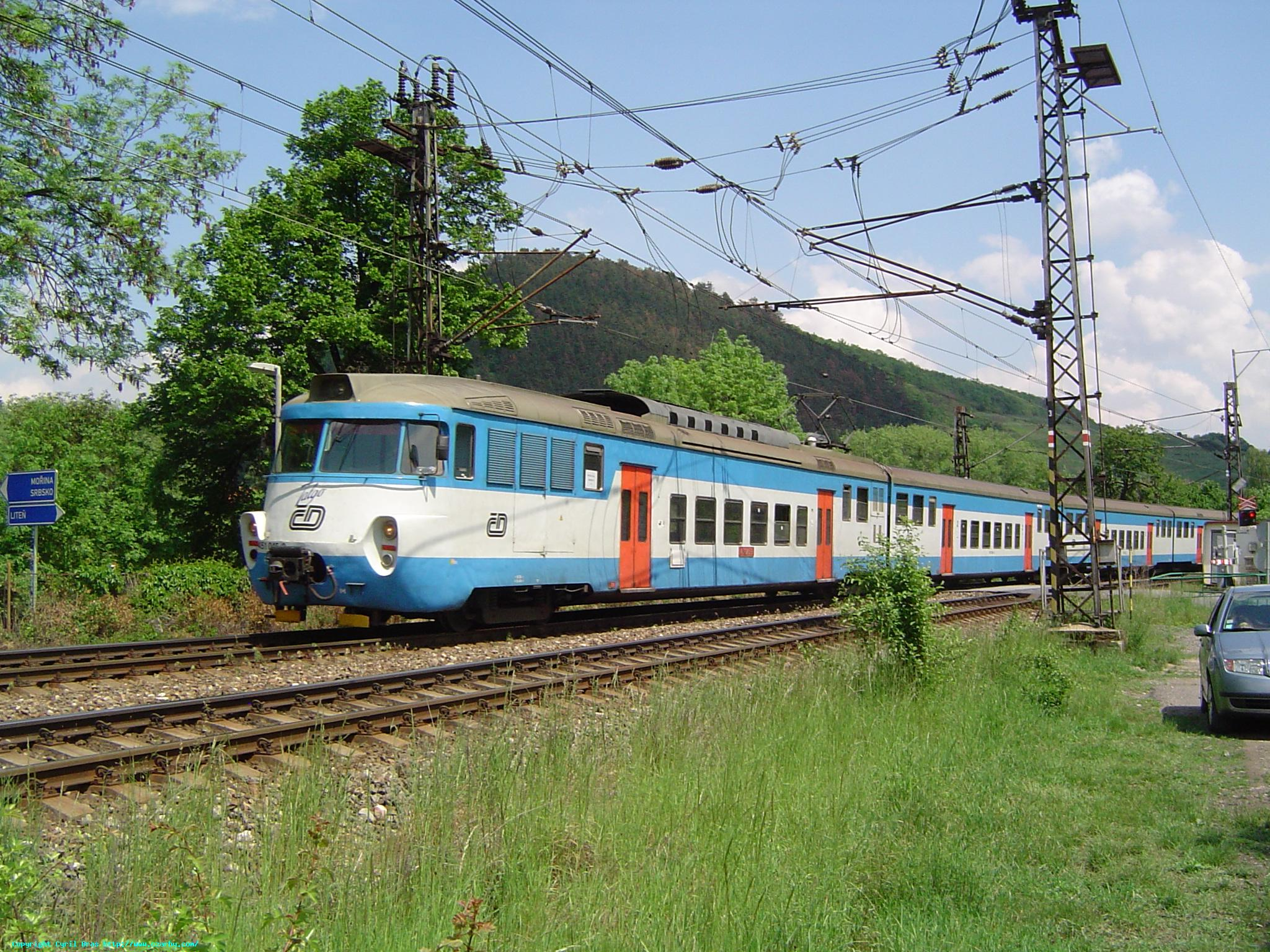 ČD 3 kV DC EMU 451.045 (451.045-46) arriving to the station Karlštejn